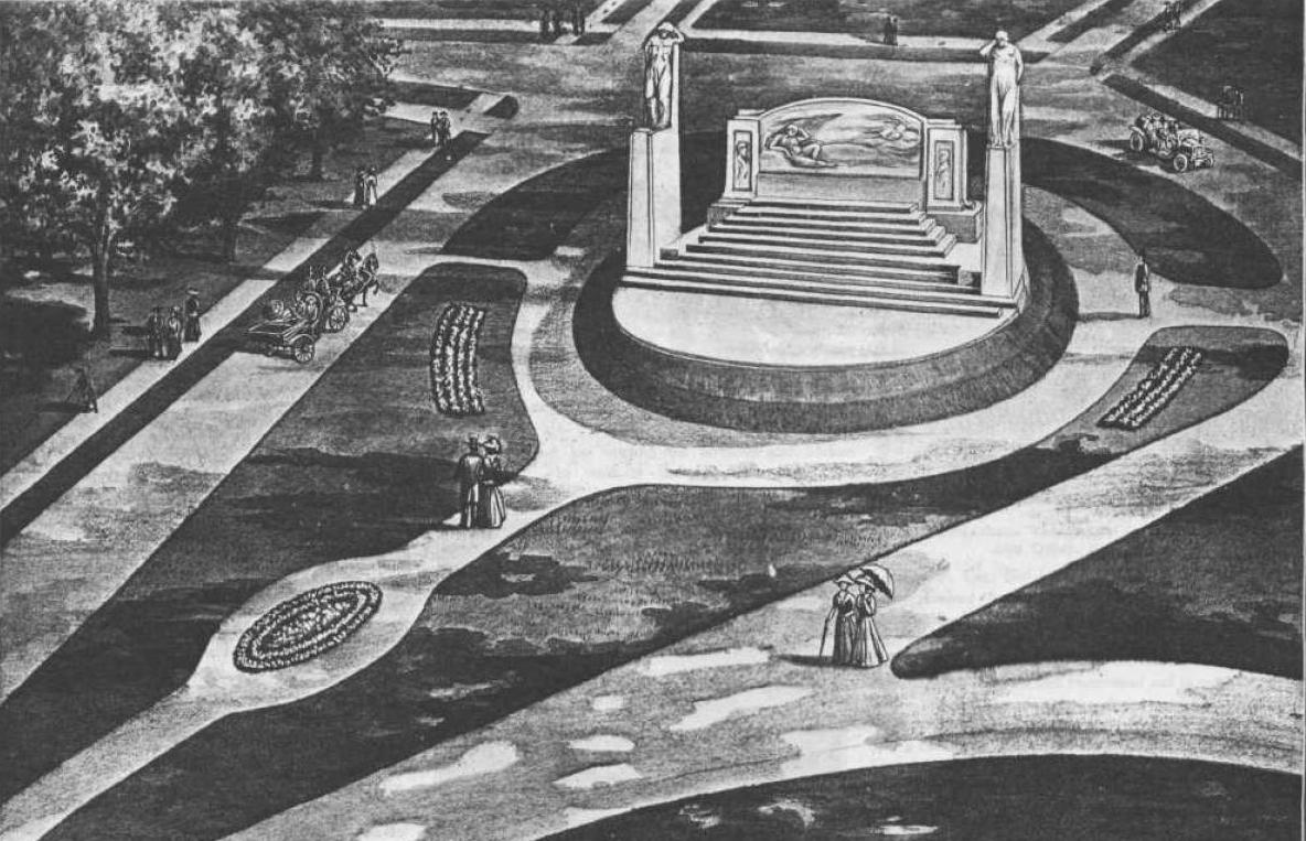 An artist's drawing depicting the Alexander Graham Bell Gardens, and the Bell Memorial monument, in Brantford, Ontario. The Memorial commemorates the invention of the telephone by Bell in Brantford in July 1874.